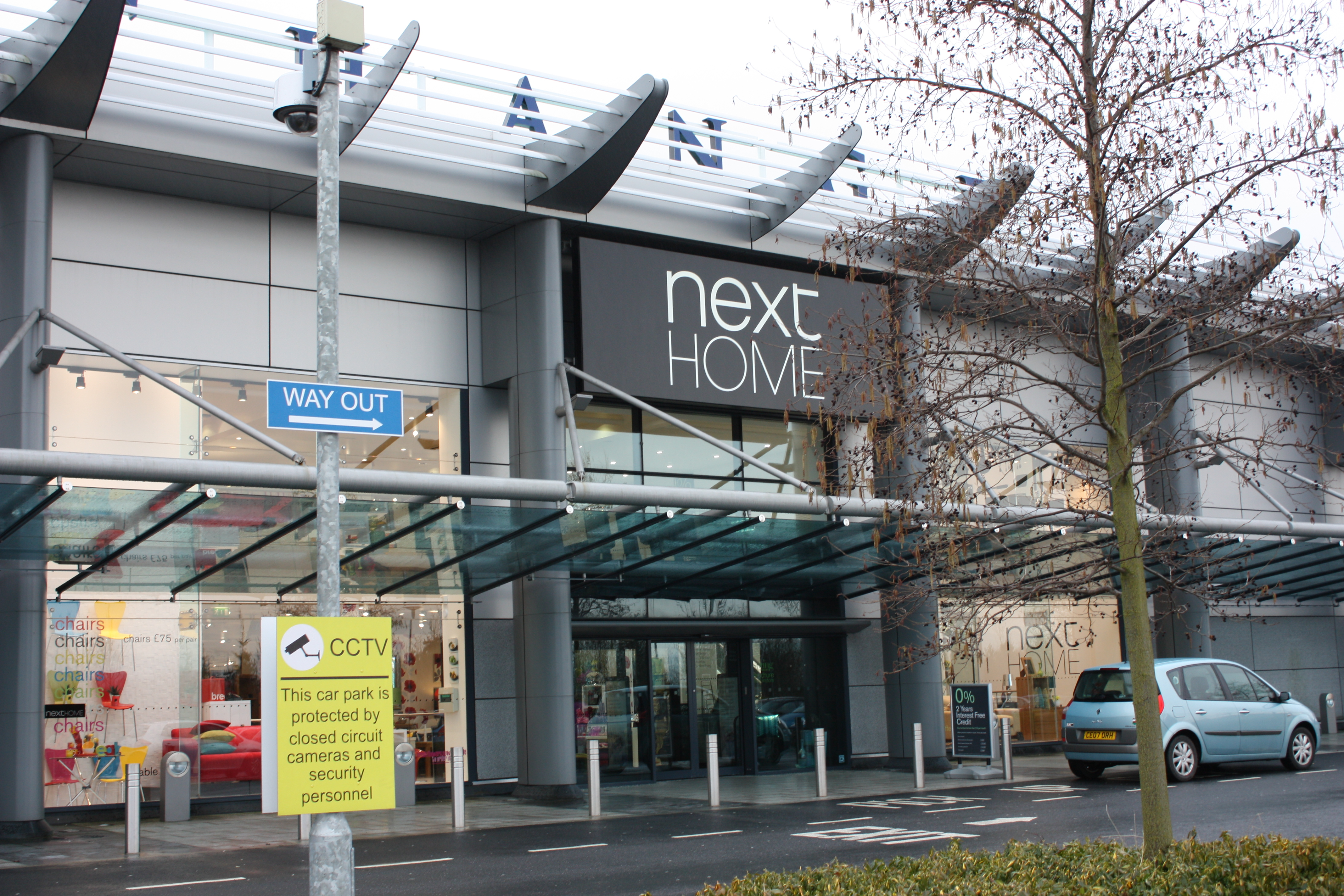 Next Home, Holywood Exchange, Airport Road West, Belfast, Northern Ireland, February 2010